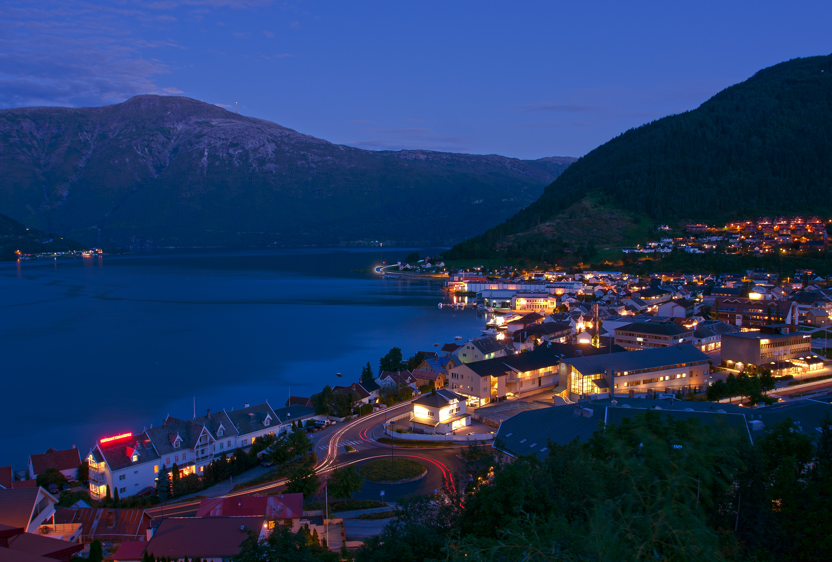 Evening in Sogndal, Norway